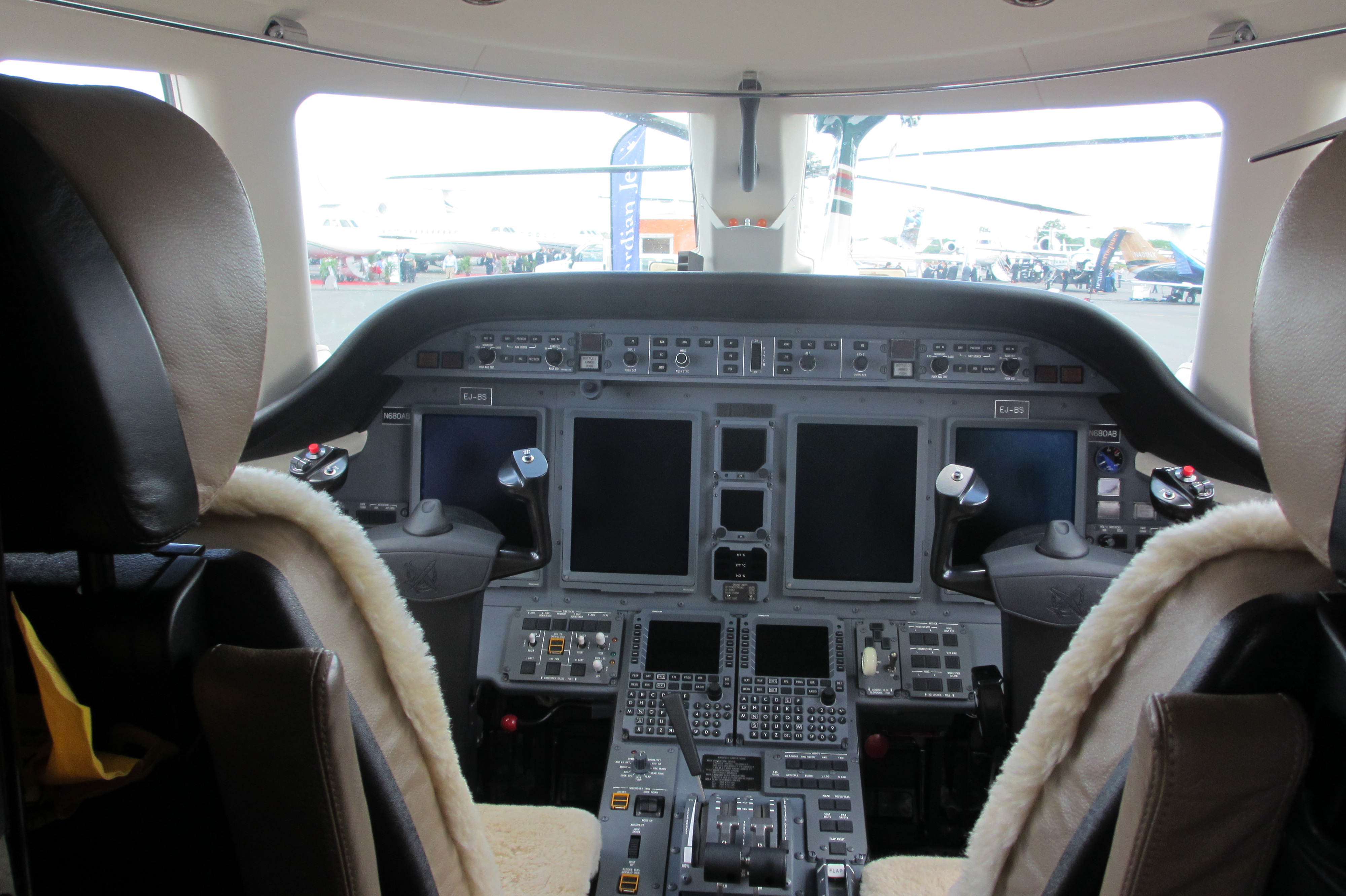 Cessna Citation Sovereign cockpit